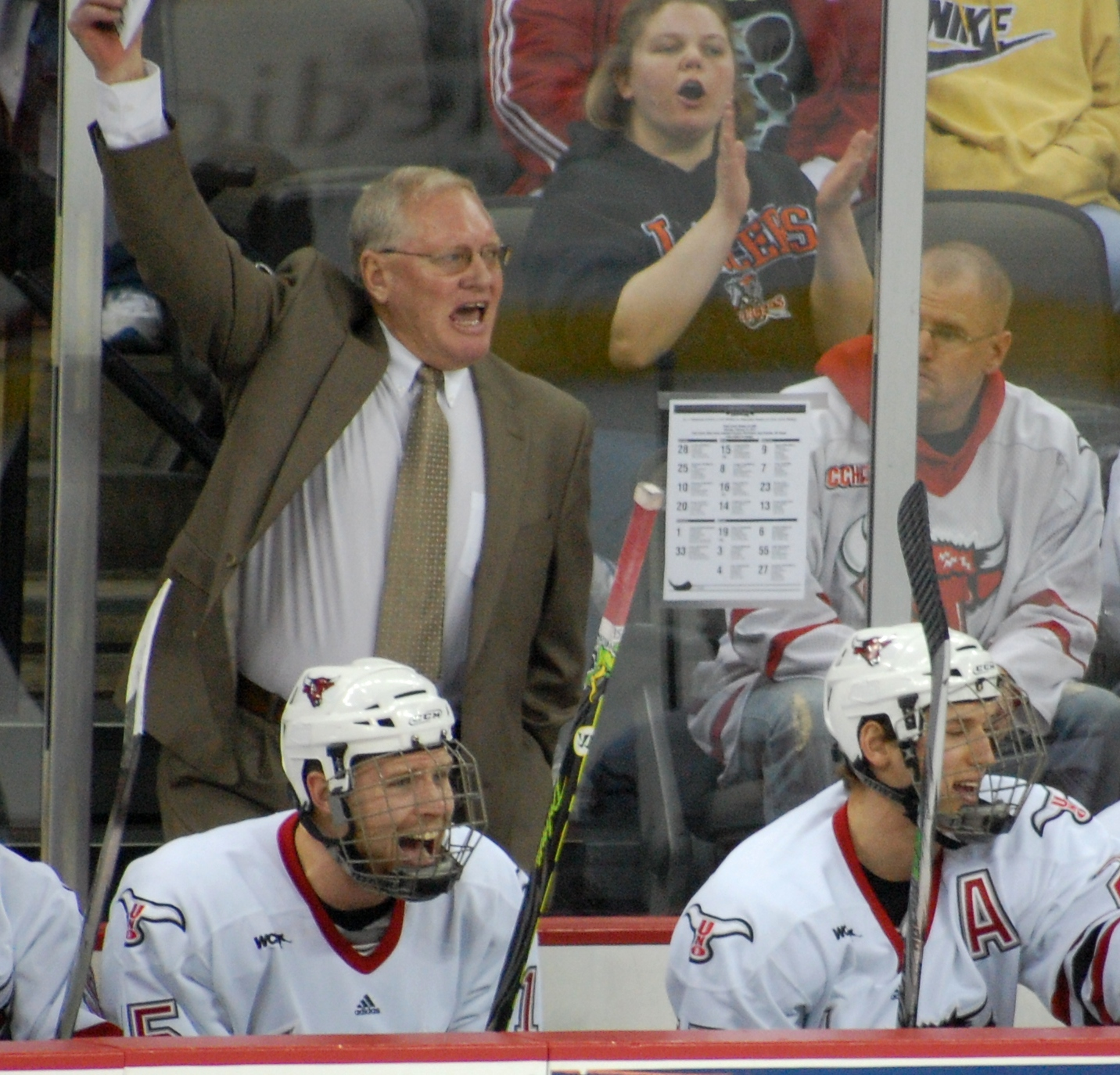 Dean Blais coaches a game for the Nebaraska-Omaha Mavericks men's hockey team in 2011